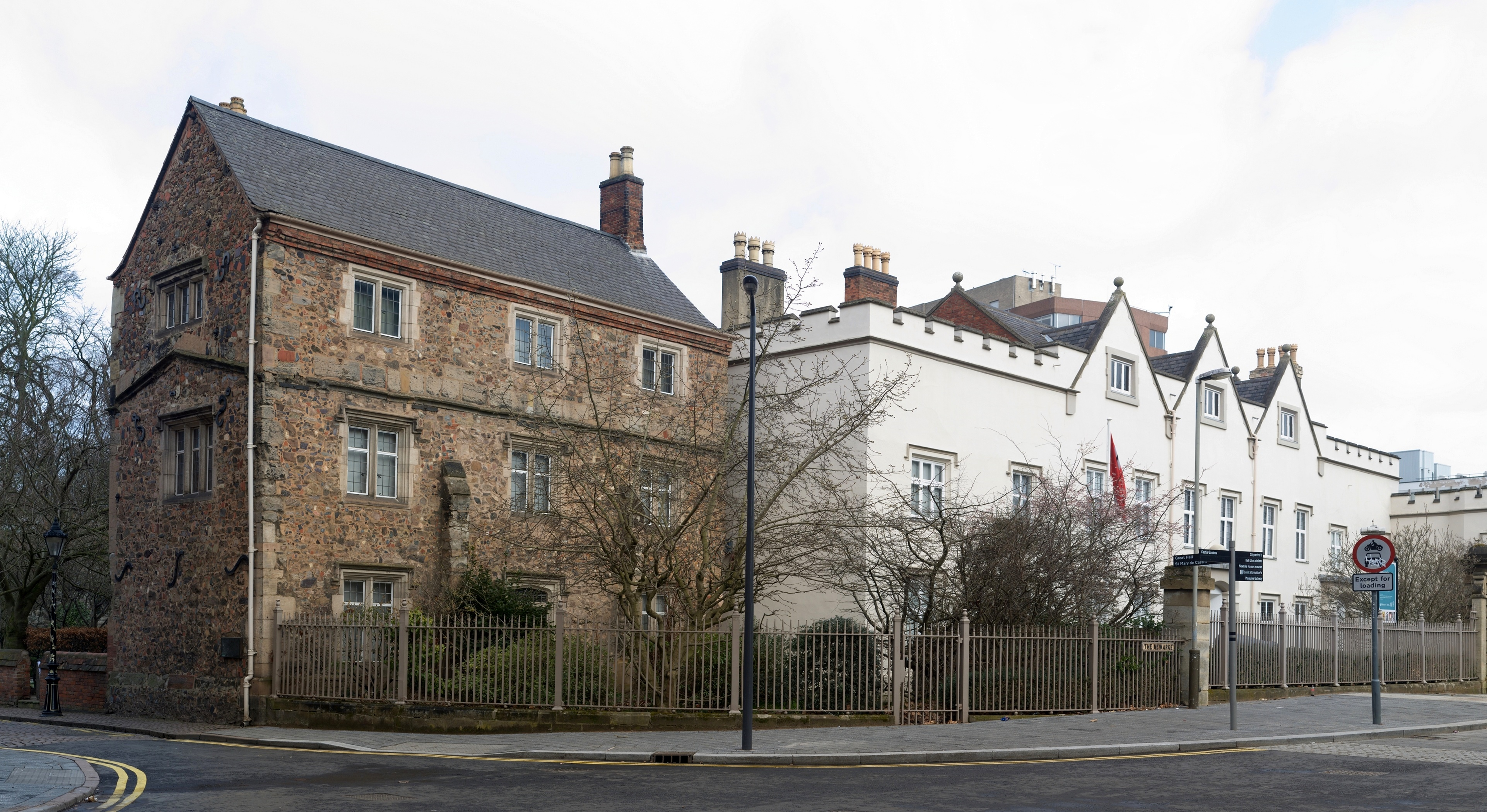 The Newarke Houses Museum in Leicester, England. The museum incorporates two historic buildings: Wigston's Chantry House (left) and Skeffington's House.(right). Both are Grade II* listed.[1]